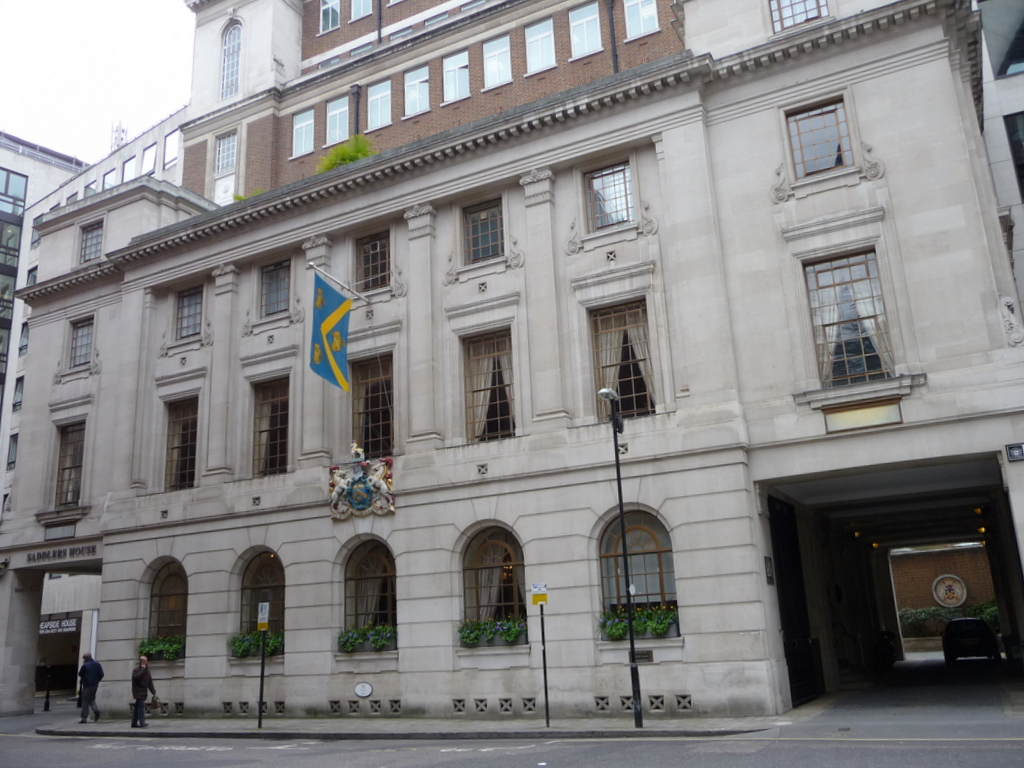 Saddlers' Hall, Gutter Lane, London EC2